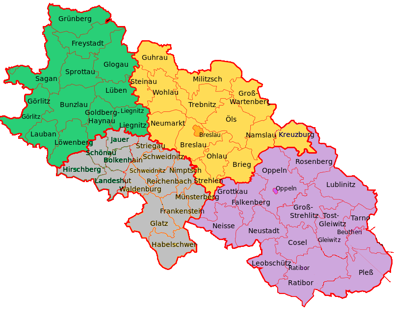 Administrative division of prussian Silesian Province in 1815.